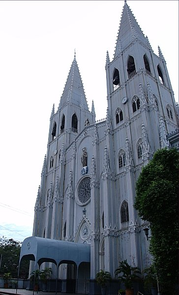 San Sebastian Church facade